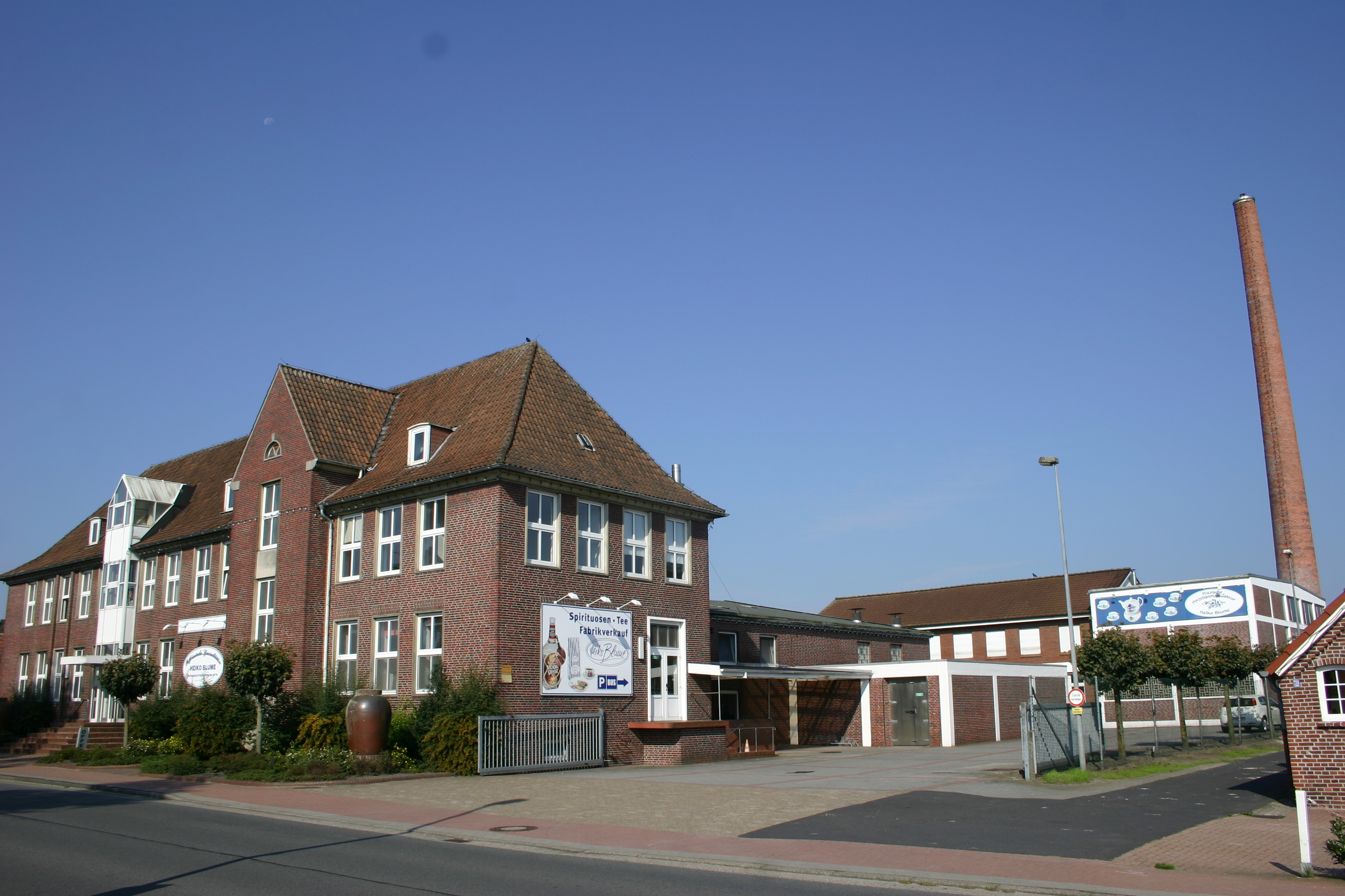 Liqueur factory Heiko Blume in Friedeburg, district of Wittmund, East Frisia, Germany